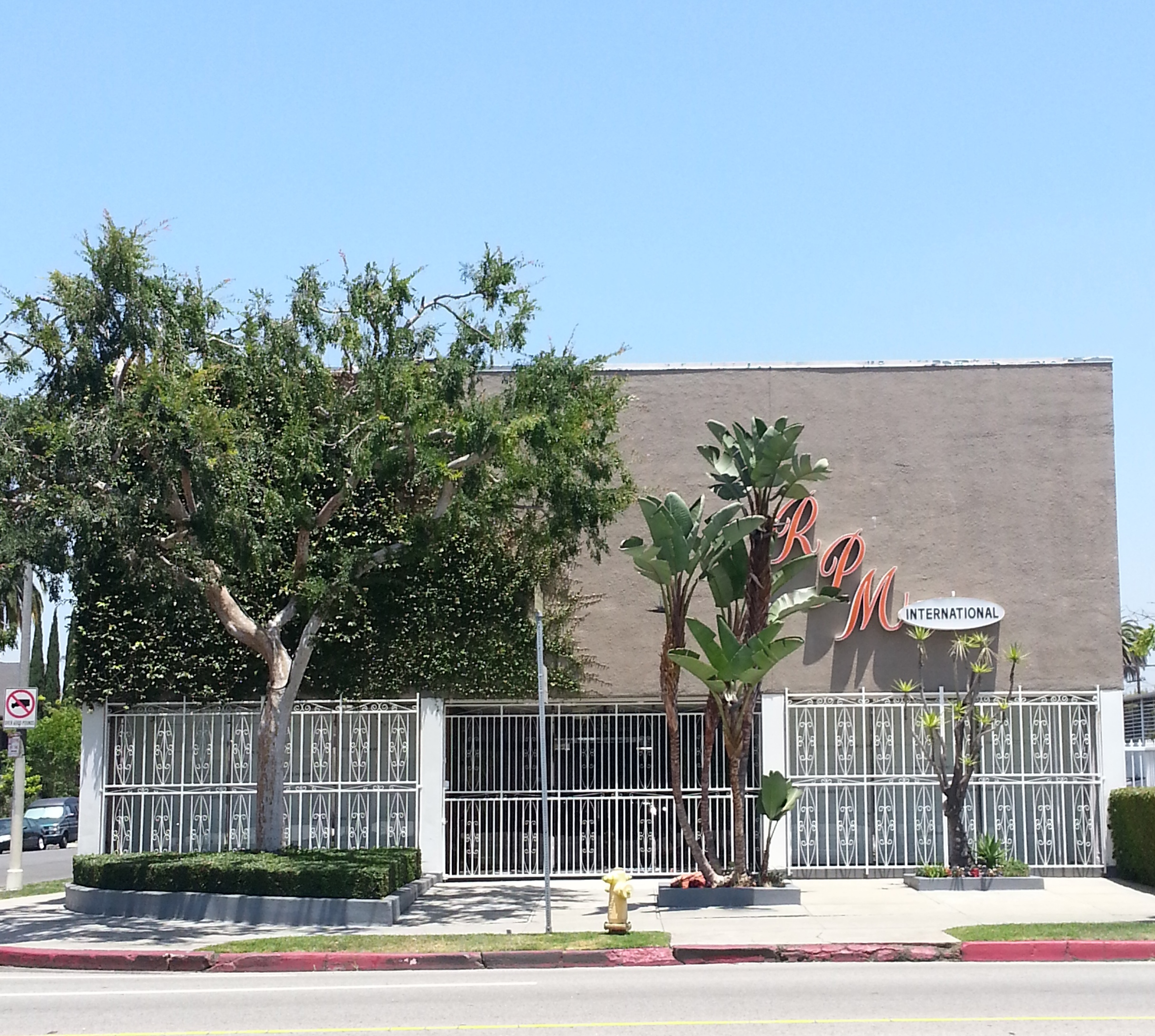 Exterior view of the Ray Charles Memorial Library (Los Angeles Historic Cultural Monument #776).